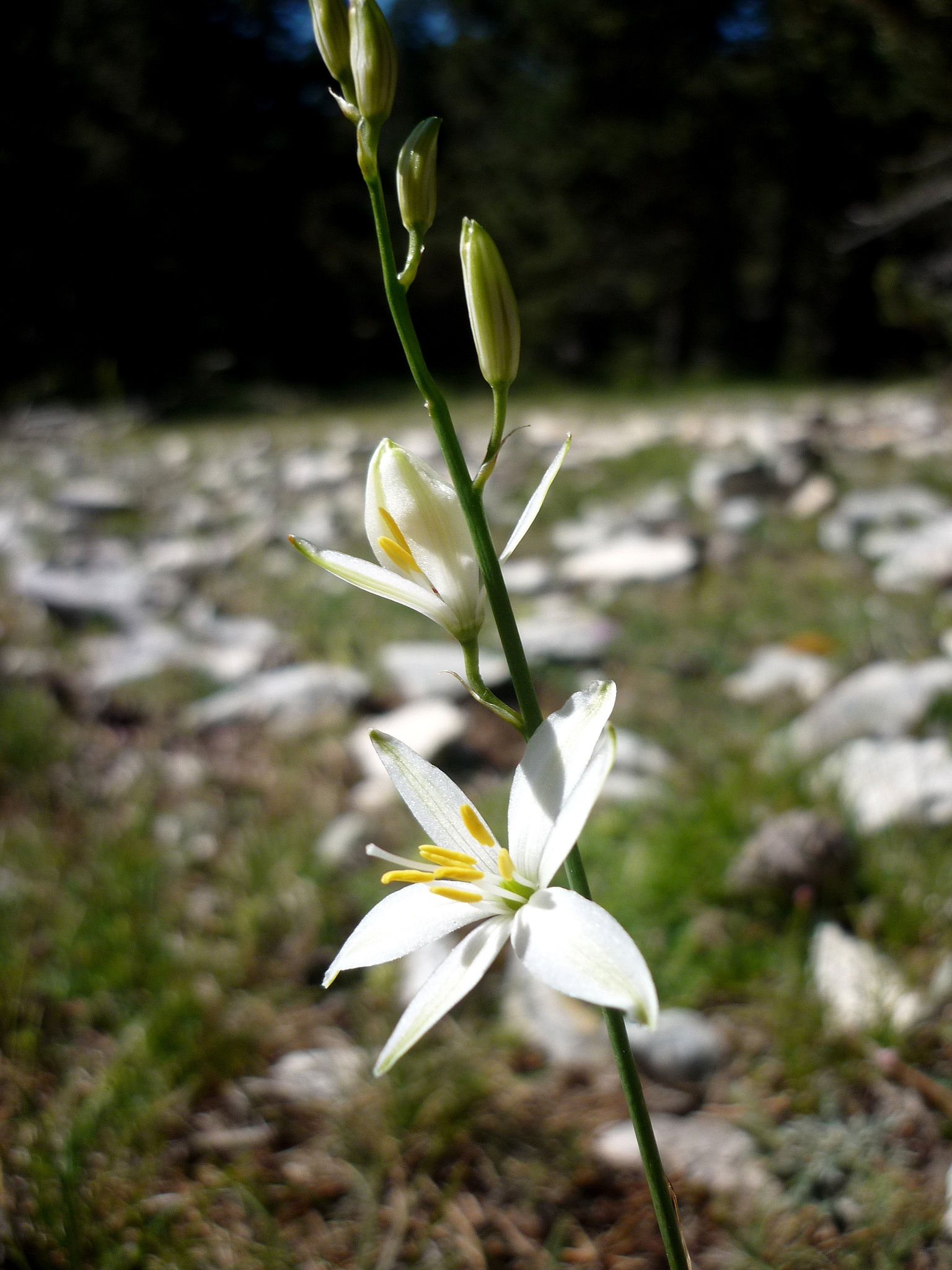 Anthericum liliago. In la Bòfia, Odèn (Solsonès - Catalunya). To 2.150 m. altitude